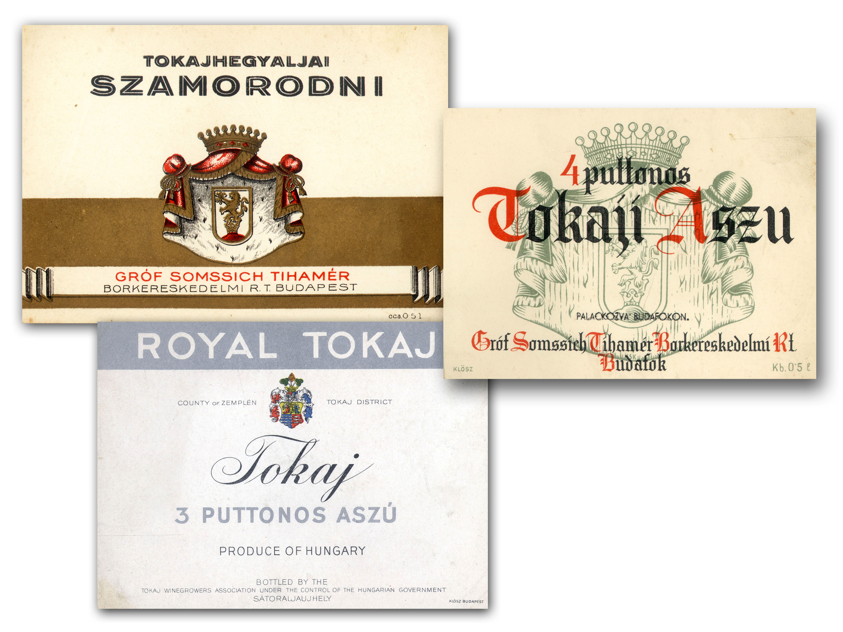 Original Tokaj wine labels, from 1910 years - Hungary. In this time was produced wine of Tokaji only in Hungary.